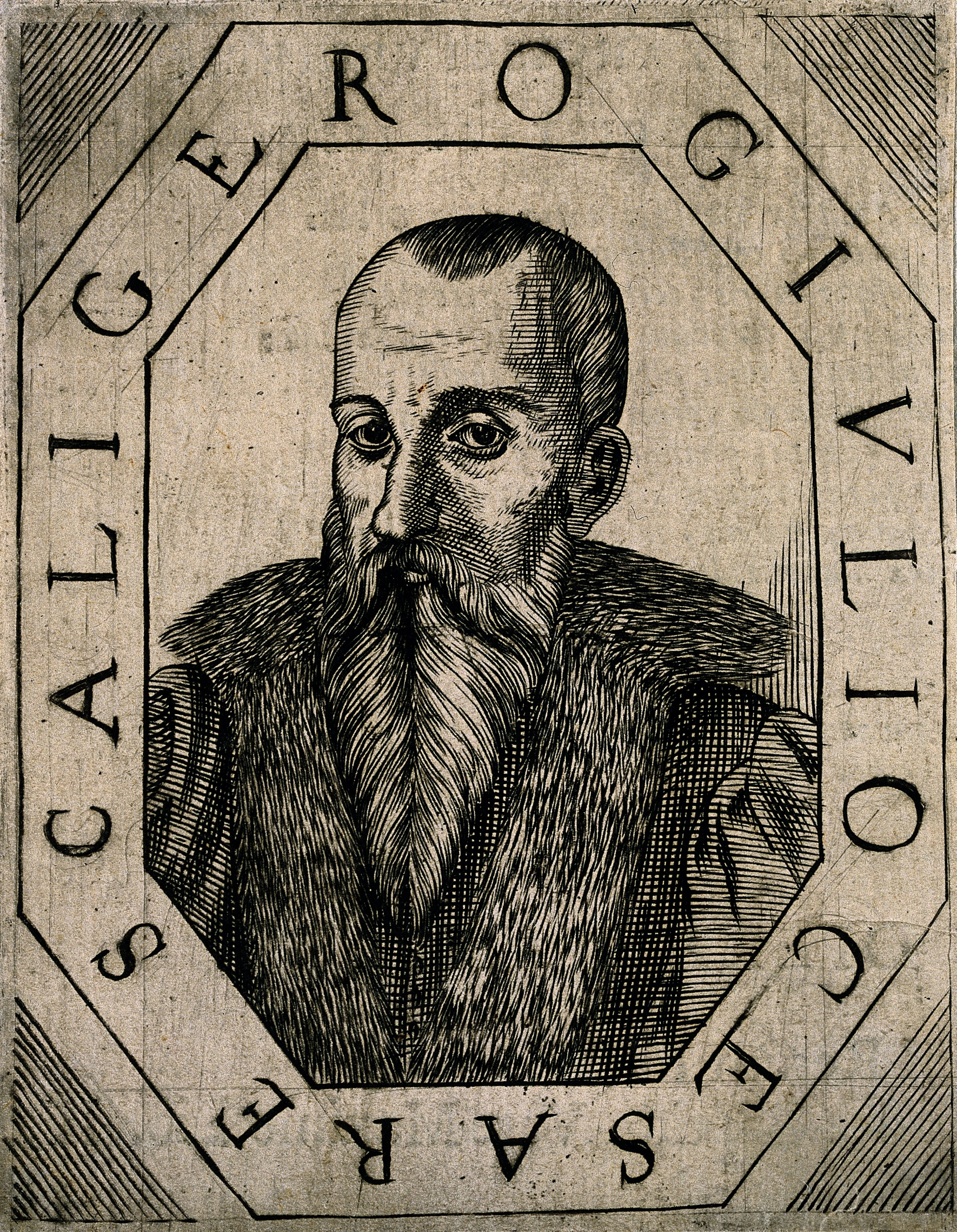 Julius Caesar Scaliger. Line engraving, 1666. Iconographic Collections Keywords: portrait prints; engravings; Julius Caesar Scaliger